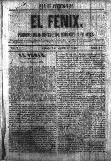 Periódico El Fénix, Ponce, Puerto Rico, edición de 2 de Agosto de 1856